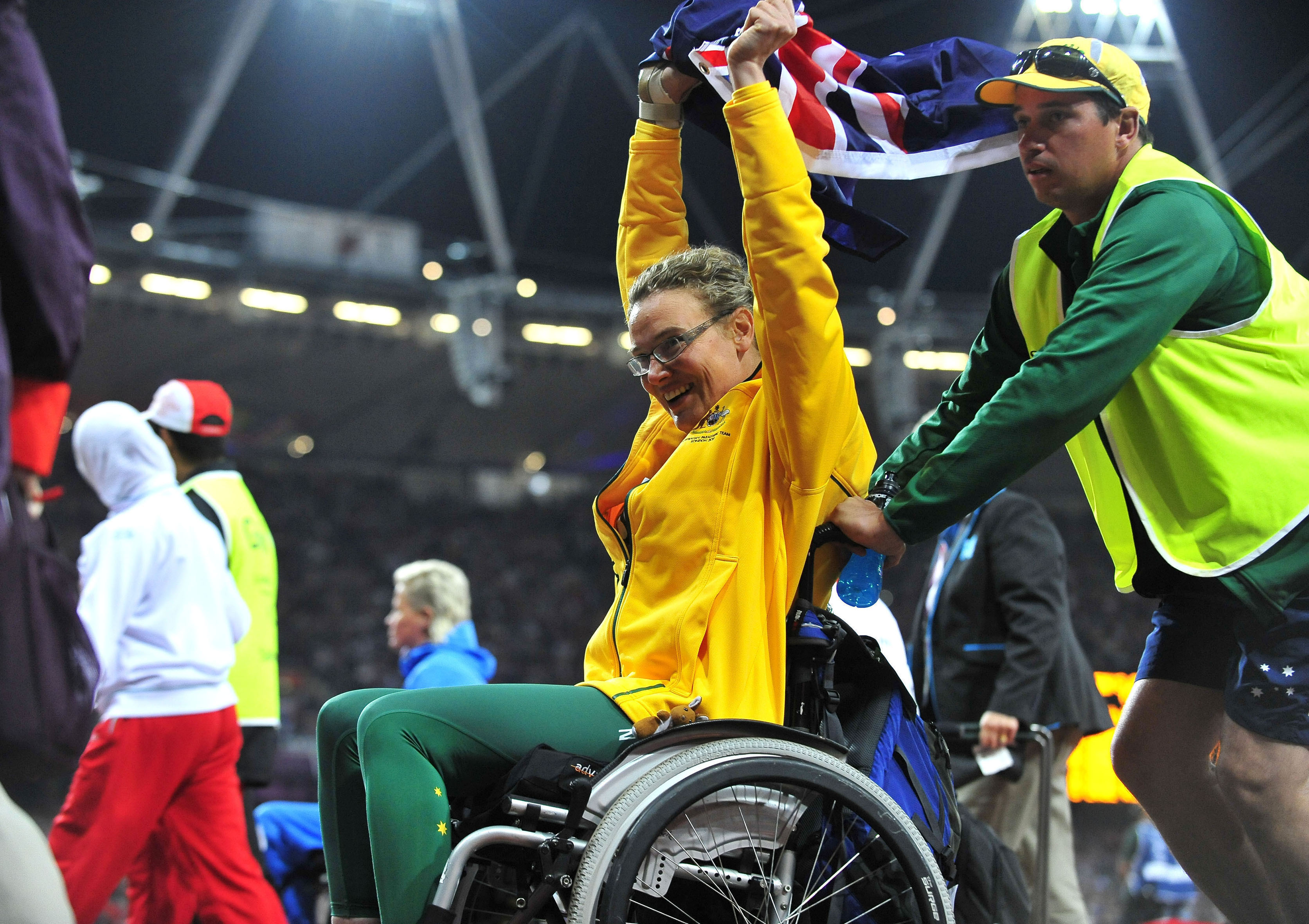 Photograph of Australian Paralympic team member Louise Ellery at the 2012 Summer Paralympic Games in London